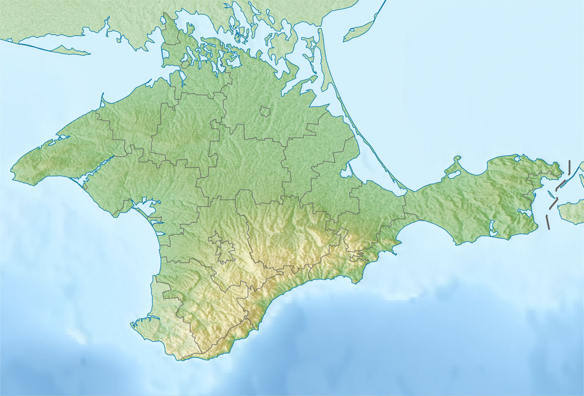 Physical map of the Autonomous Republic of CrimeaConformal projection, standard parallels — 45°15's.W.Template parameters (coordinates of the edges): top = 46.3 bottom = 44.2 left = 32.4 right = 36.8